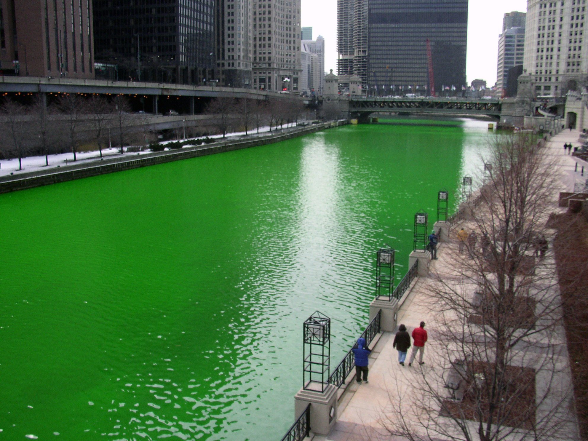 This is a photograph of the Chicago River dyed green for the St. Patrick's Day celebration. On the left is Wacker Drive, where it changes from three to two levels. Crossing the river is Michigan Avenue's double-decker bridge.